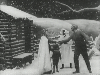 Description: Still from 1903 film version of Uncle Tom's cabin, directed by Edwin S. Porter. Portion: Reduced from original size so it is no longer suitable for reproduction. Purpose: To illustrate the novel and film of Uncle Tom's Cabin, of which this film forms a vital part of the story's history.